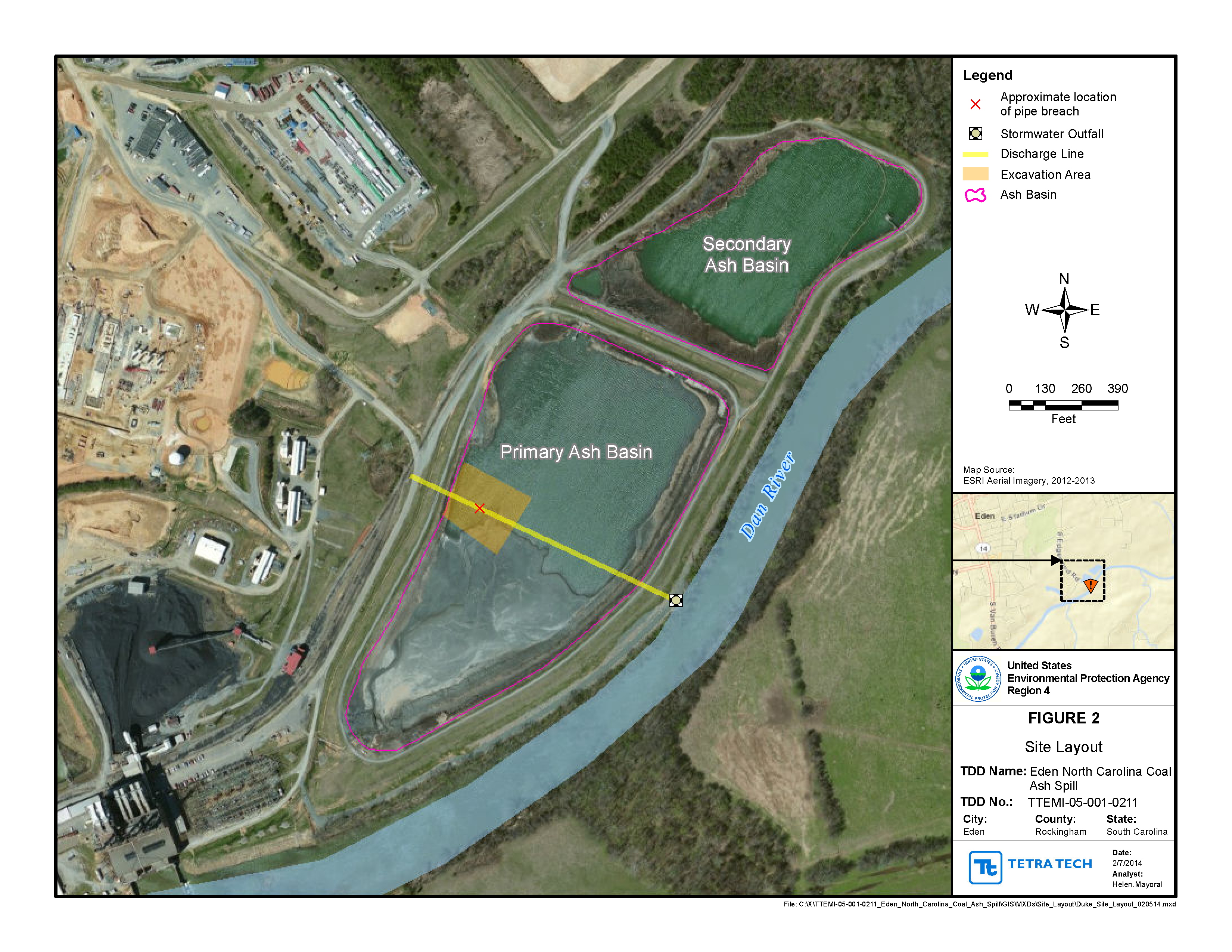 Annotated aerial photo of site of coal ash spill (2014 Dan River coal ash spill) at Dan River Steam Station (Duke Energy), Eden, North Carolina.